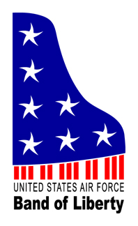 Logo of the United States Airforce "Band of Liberty" - see versions used at